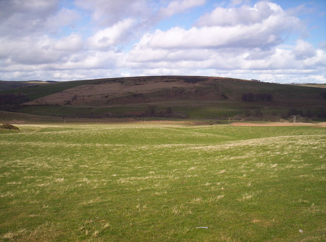 Droop Hill from near Auchtochter